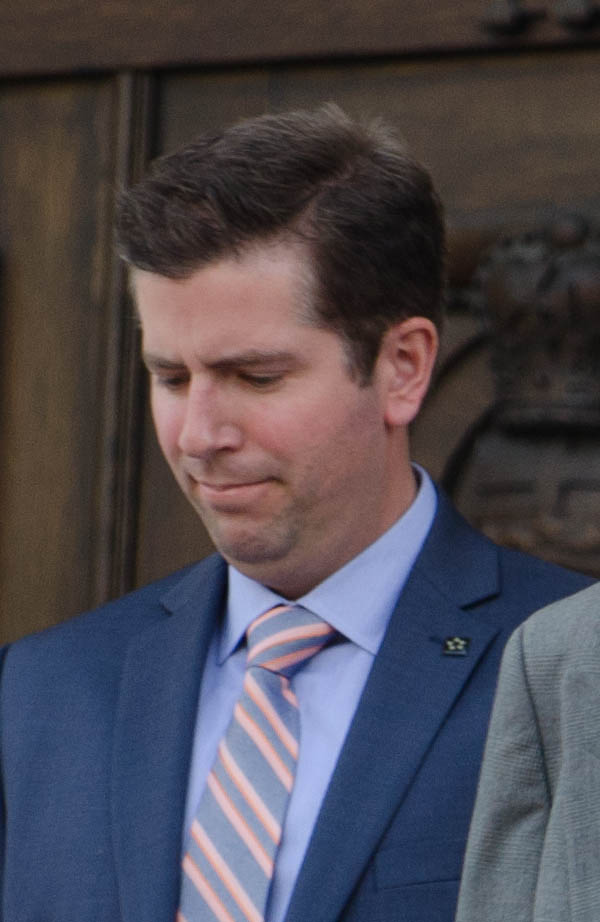 Jamie Kleinsteuber at the 2015 Alberta Premier/Cabinet swearing-in ceremony, by Connor Mah.